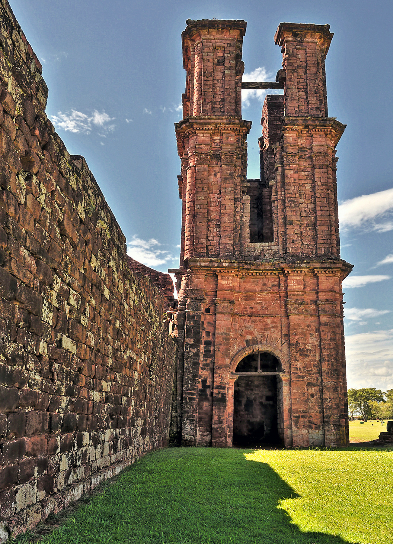 São Miguel das Missões (Portuguese for St. Michael of the Missions) is a Ruínas de São Miguel - St. Michael of the Missions - Rio Grande do Sul - Brazil site located in the small town of São Miguel das Missões in the northwestern region of Rio Grande do Sul, a state in southern Brazil. It is also known as São Miguel Arcanjo and by its Spanish language name San Miguel. It was one of the many Jesuit Reductions in Argentina and Brazil. Jesuit missionaries founded the mission in the 18th century in part to catechise the Guaraní indian population and to protect the natives from Spanish and Portuguese slave traders. Façade of São Miguel das Missões.The Mission was built from around 1735 to around 1745. Despite the efforts of the Jesuits, the slave trade of the Spanish and Portuguese empires eventually conquered and the Mission was abandoned. The Cathedral in nearby Santo Ângelo city is modeled after the São Miguel das Missões reduction(Wikipedia).